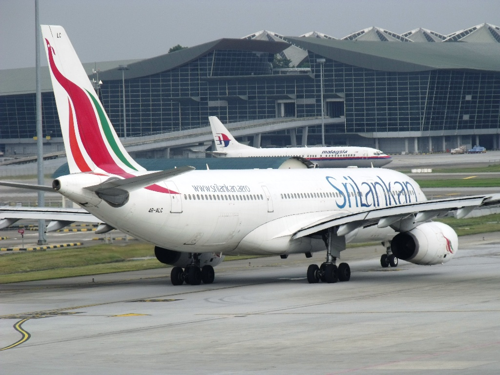 Srilankan Airlines A330 in KLIA